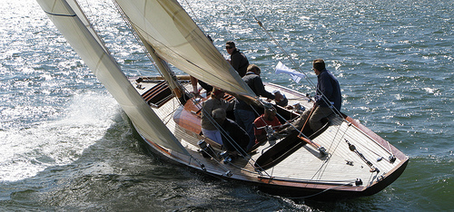 Våsgspel an 8mR yacht from Finland sailing in the Musto Classic regatta august 2008